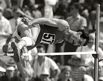 Robert Shavlakadze at the 1960 Olympics.